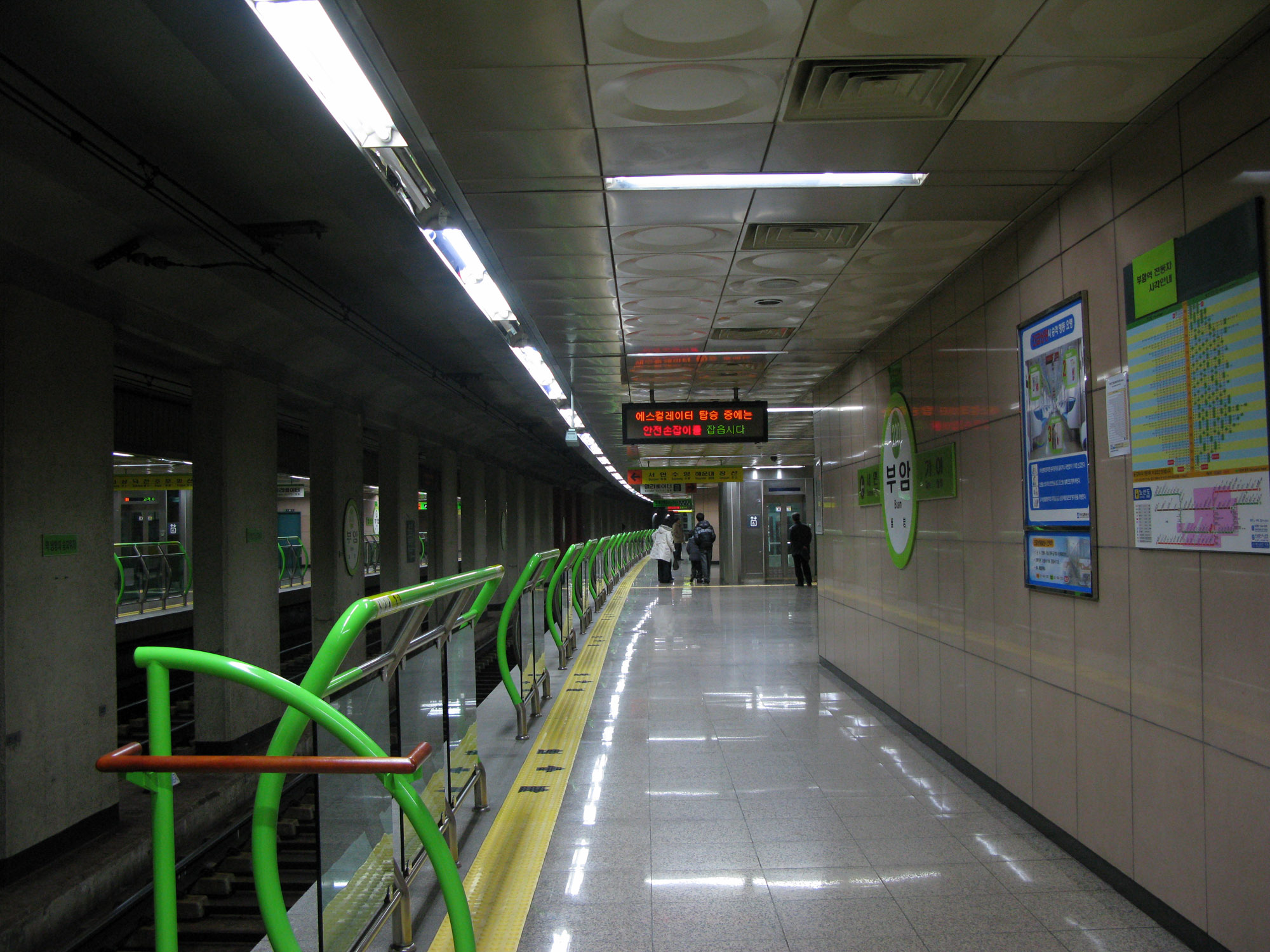 Busan Subway Line 2 Buam Station Platform